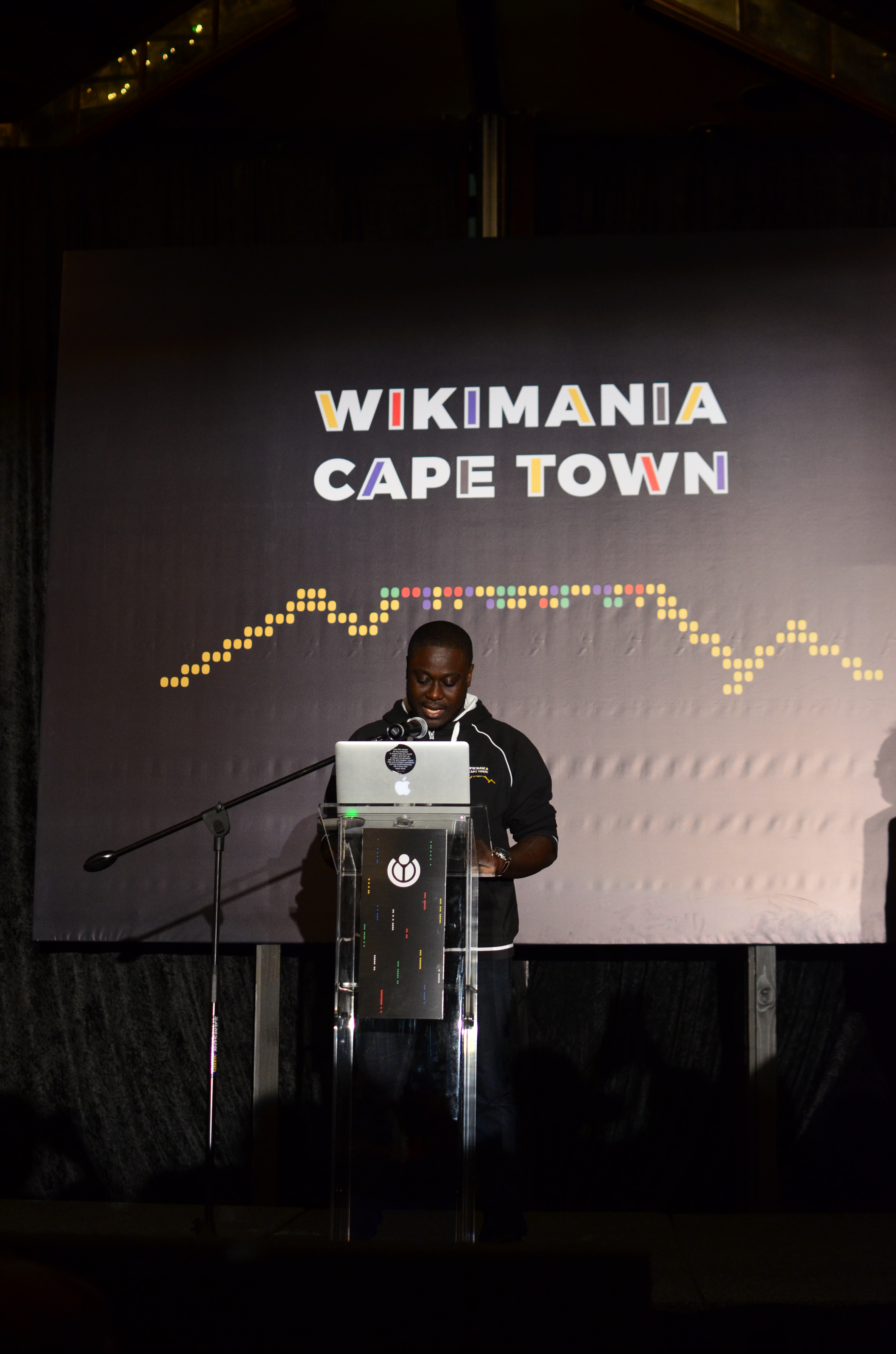 Felix Nartey. Wikimania 2018